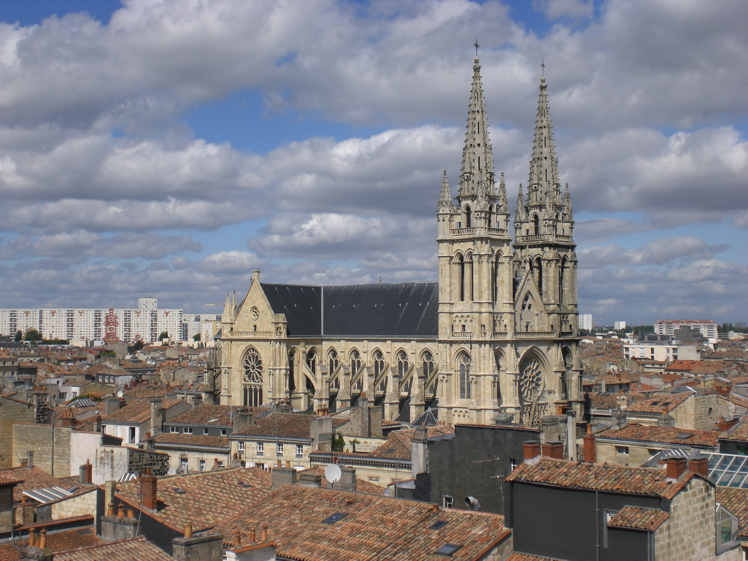 Church Saint-Louis, Bordeaux